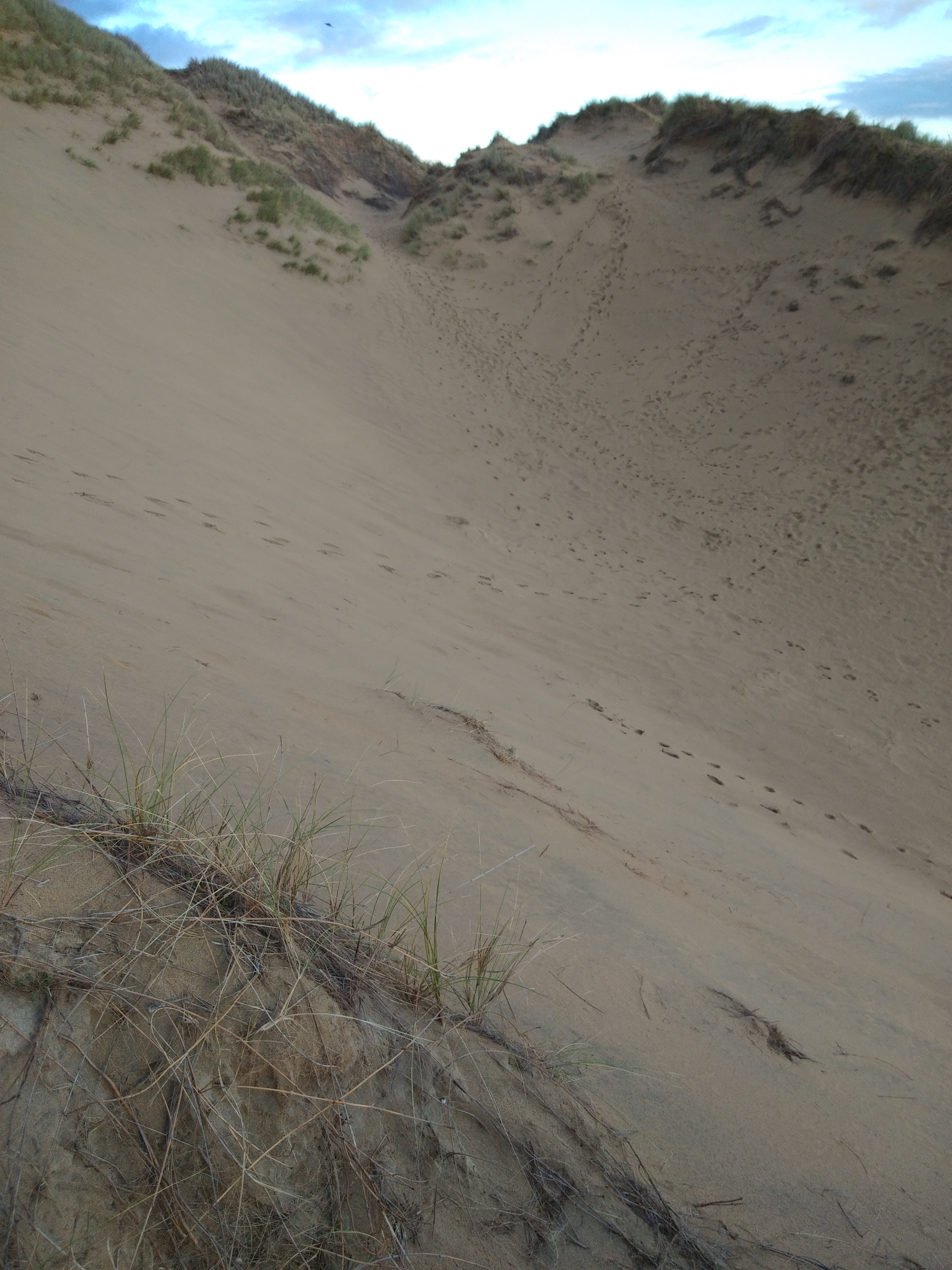 Side view of sand dunes at Holywell Bay, Cornwall.